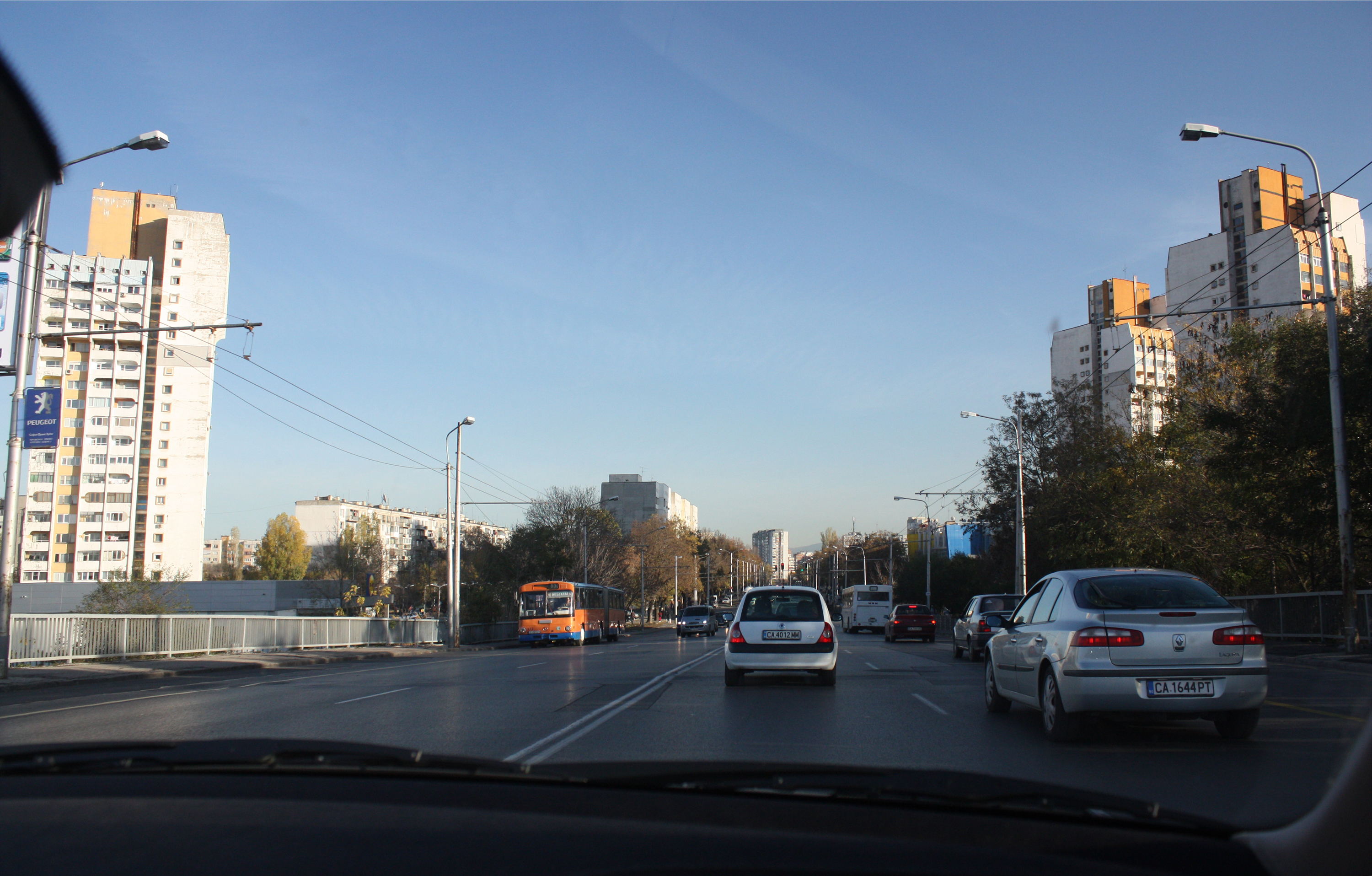 Boulevard Slivnitsa in Sofia,Ilinden District